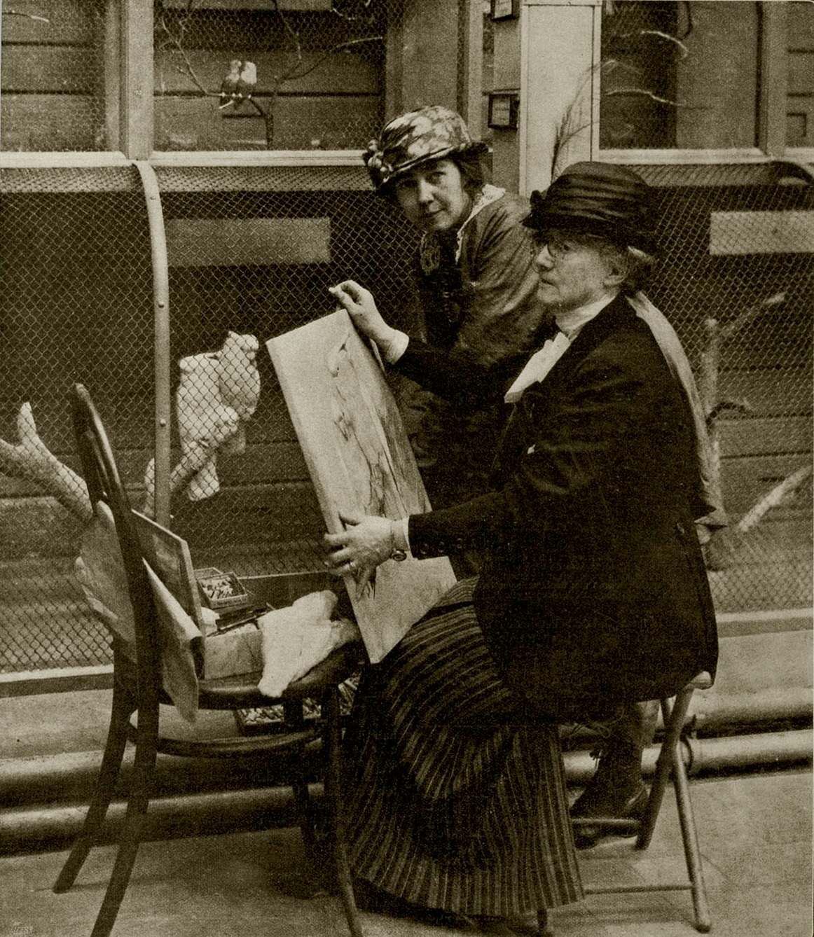 Therese Schwartze en haar Nicht Lizzy Ansingh, in Artis